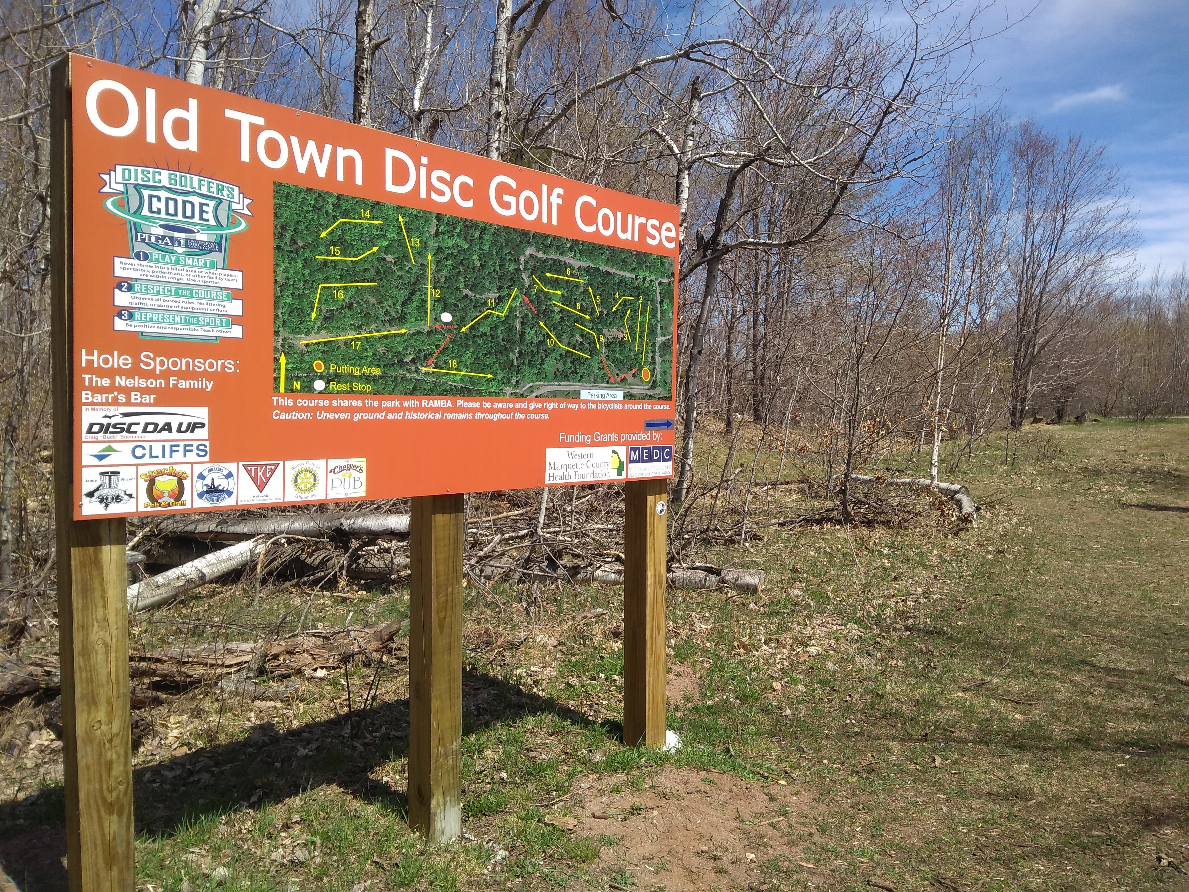 The Old Town Disc Golf Course is a free course located along Heritage Trails within Negaunee, Michigan.